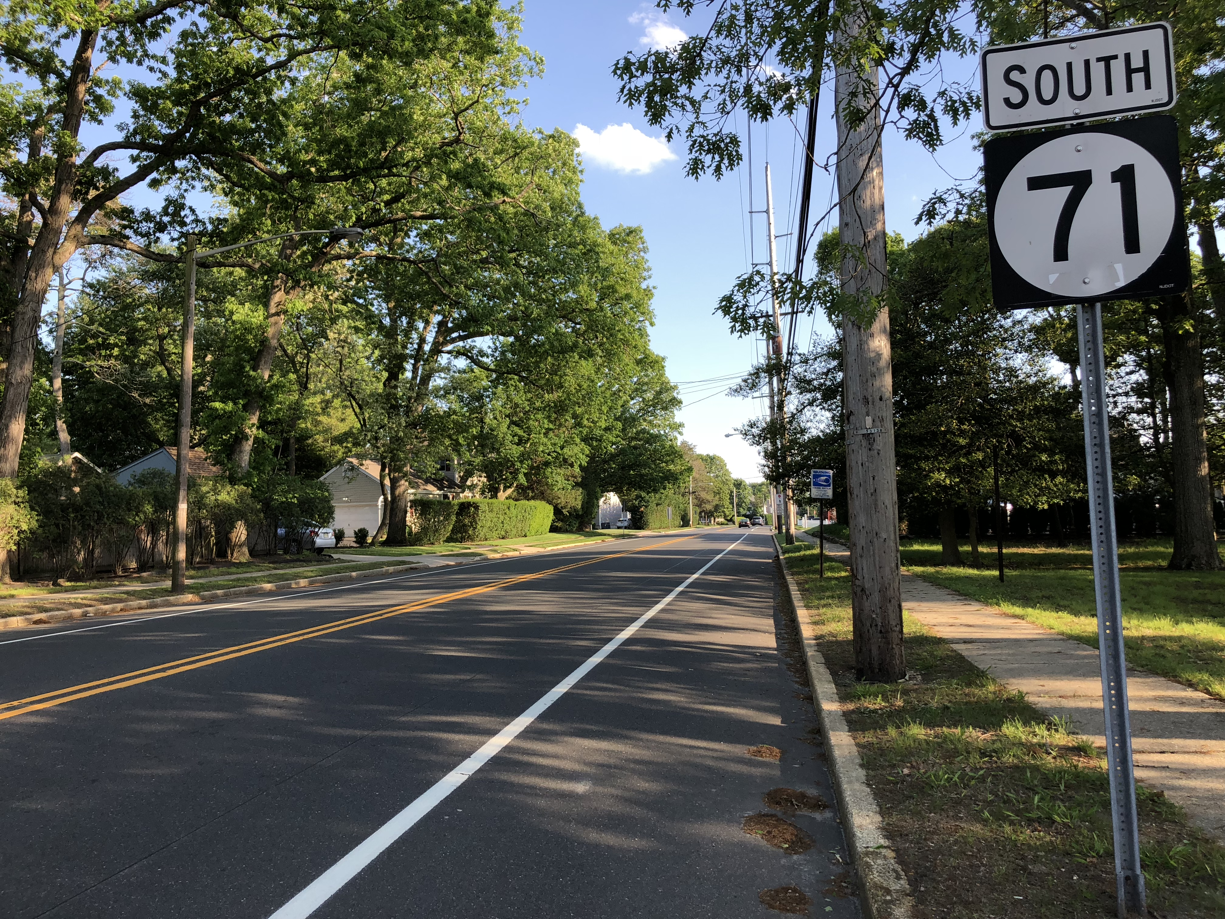 View south along New Jersey State Route 71 (7th Avenue) at Monmouth County Route 20 (8th Avenue) and Beacon Boulevard in Sea Girt, Monmouth County, New Jersey